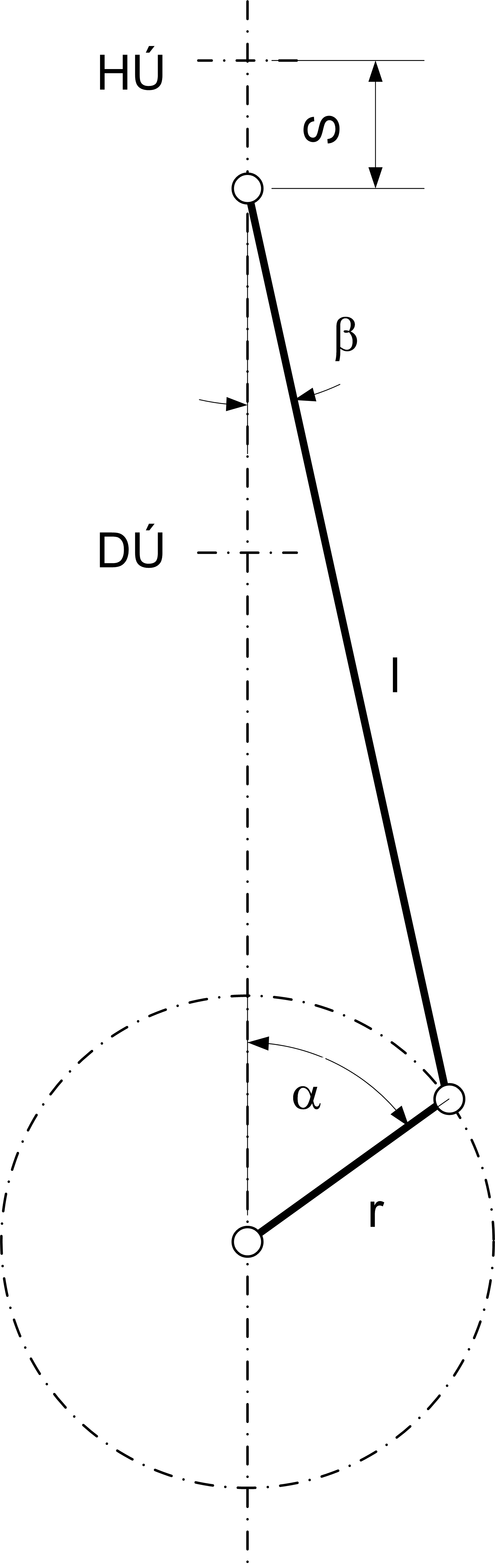 Crank mechanism geometry.